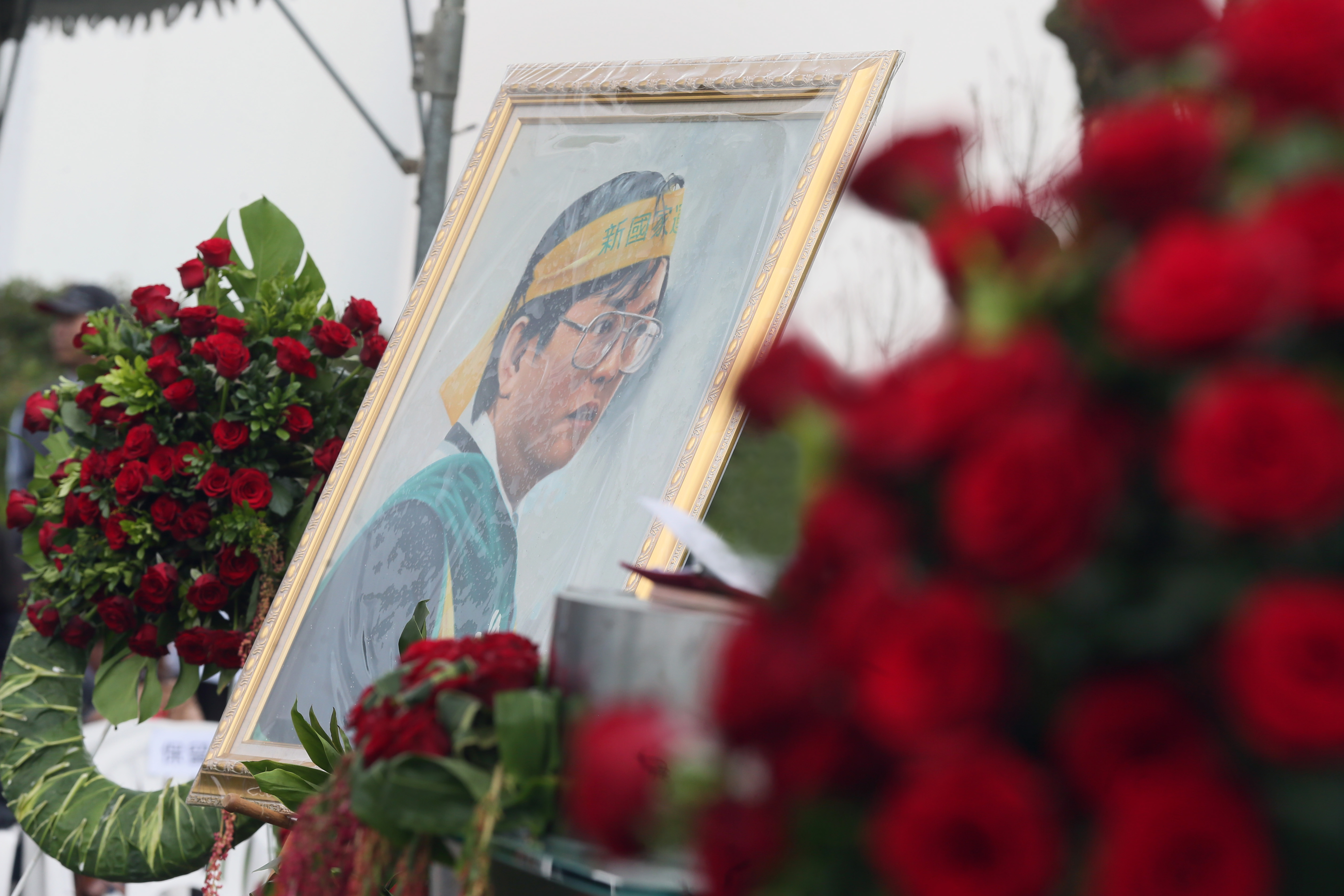 授權方式及範圍：中華民國總統府│政府網站資料開放宣告 Authorization Method & Scope: Office of the President, Republic of China (Taiwan) | Government Website Open Information Announcement